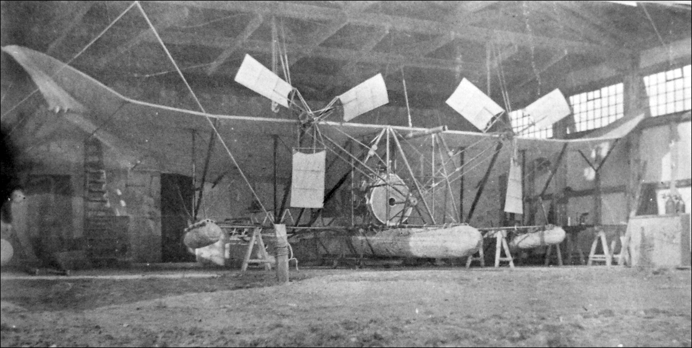 Hydroplan constructed by August von Parseval, tested 1910 in Plau am See